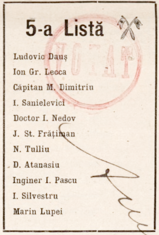 Ballot paper for the November 1919 legislative election in Romania, featuring the 5th list: Independent Party of Bessarabia, headlined by writer Ludovic Dauș.